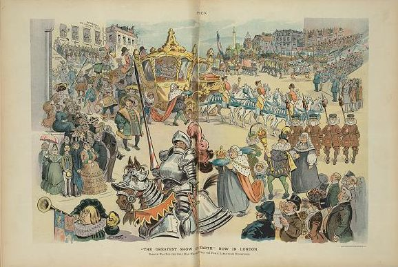 The procession for the coronation of Edward VII, King of Great Britain; many of those participating in the pageantry are wearing medieval costume.